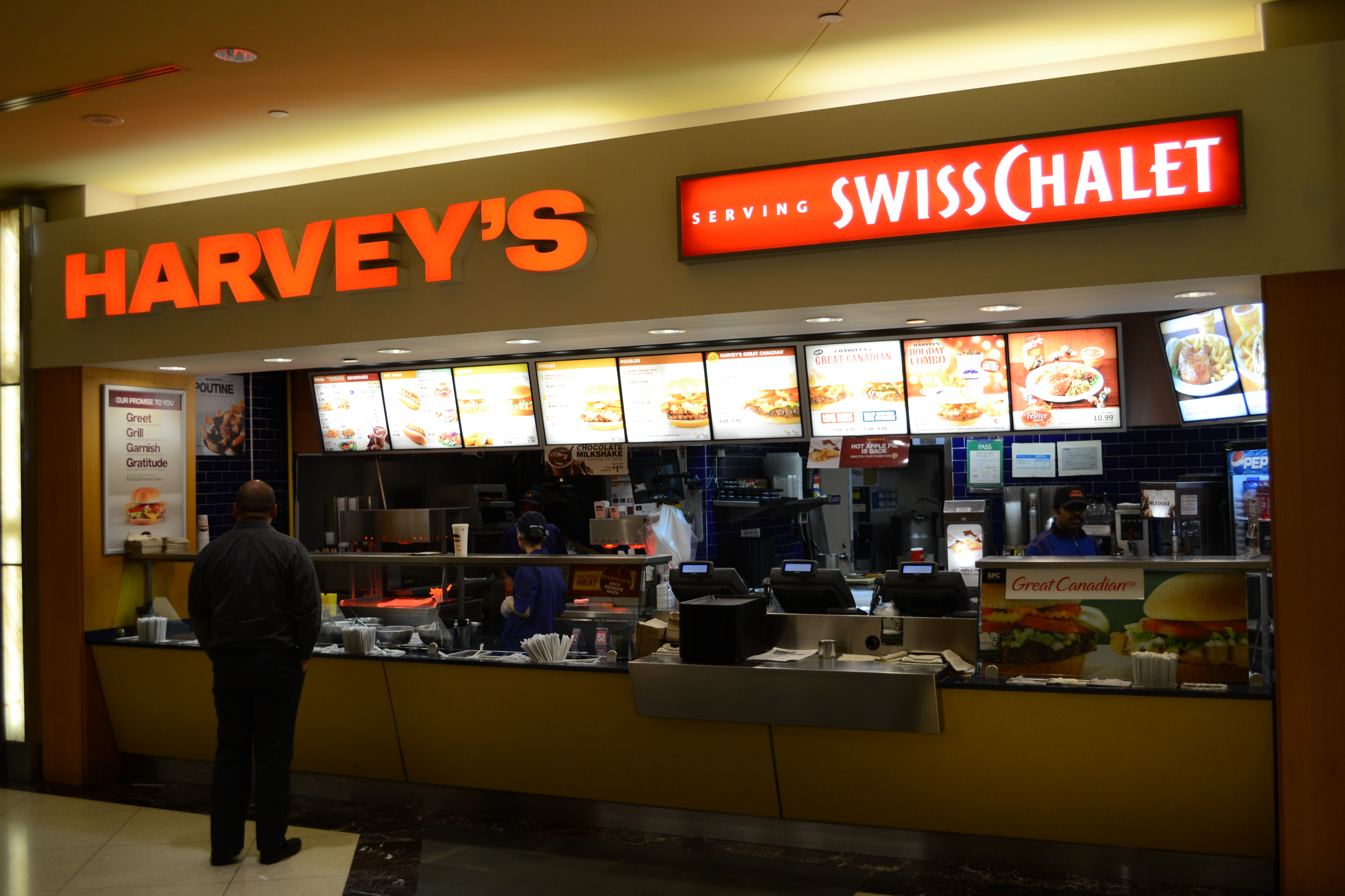 200 Bay Street, Royal Bank Plaza, Toronto, Ontario